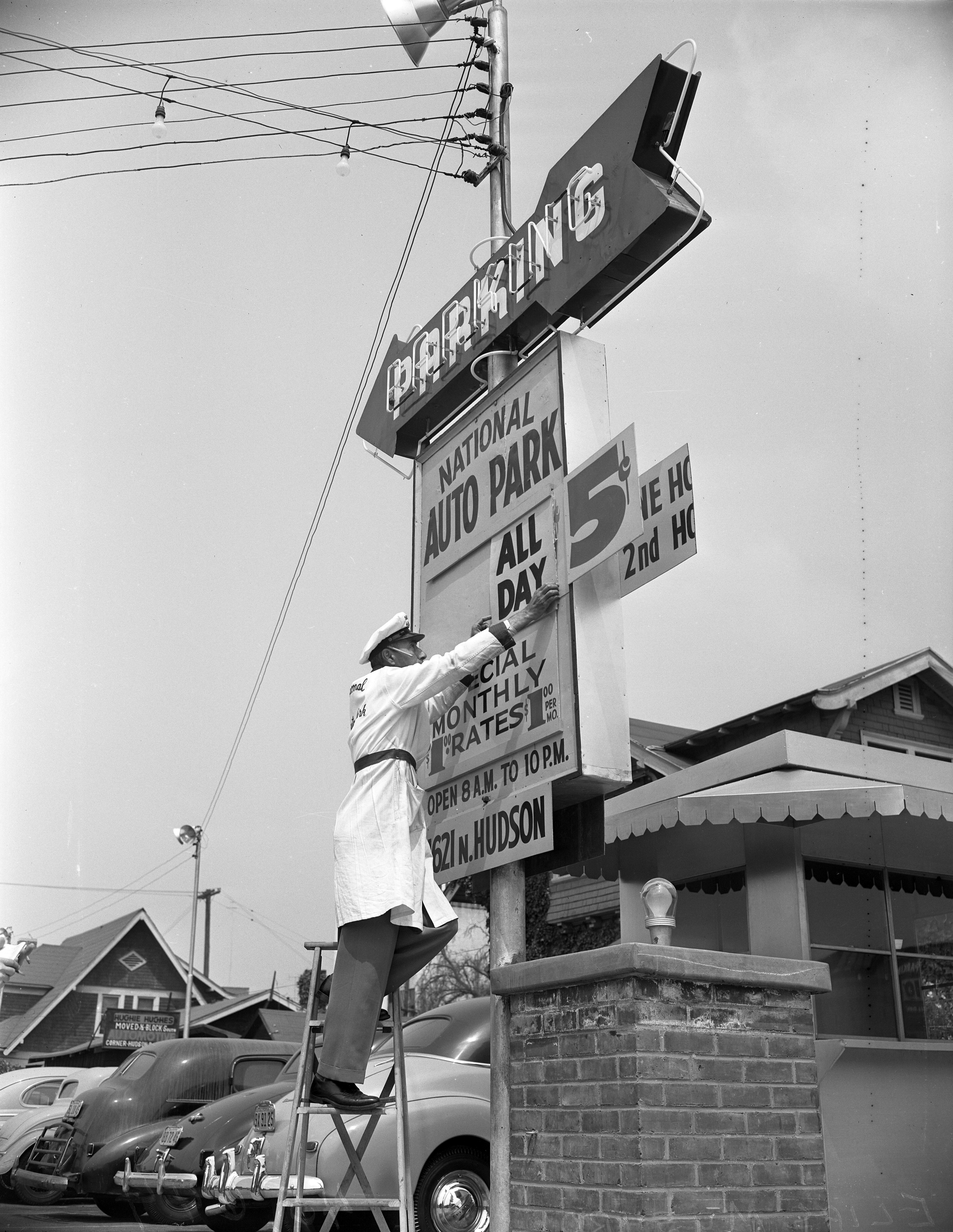 Title: Elias Mushro adjusting price signage at National Auto Park lot, 1621 N. Hudson Avenue in Hollywood, Calif., 1949